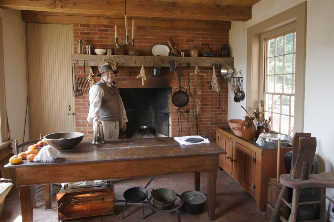 Kitchen, Benjamin Stephenson House, Edwardsville, Illinois